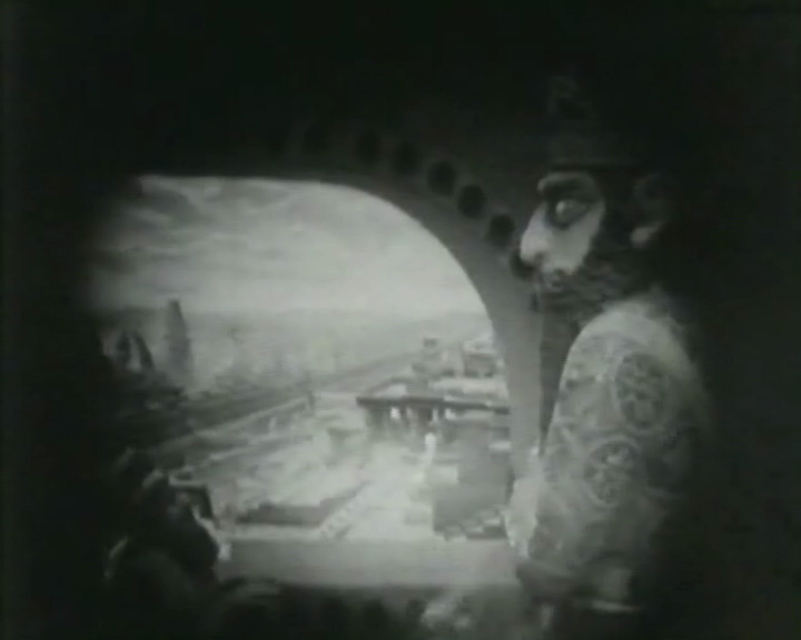 Scene from the movie Intolerance. 1916.